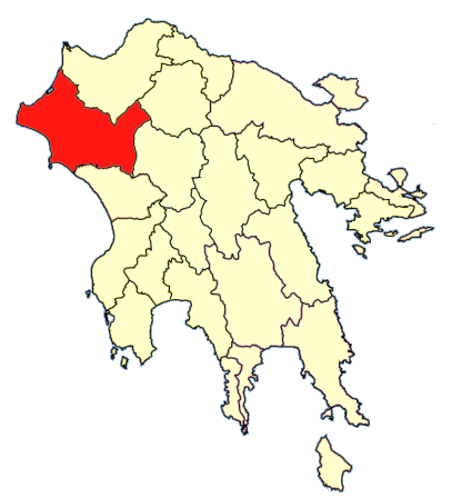 ileia province